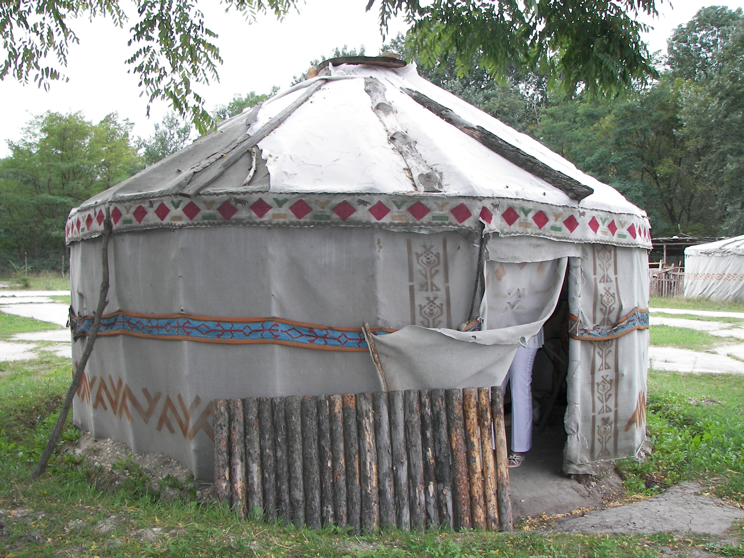 Phanagoria Ethnographic Complex near Varna, Bulgaria